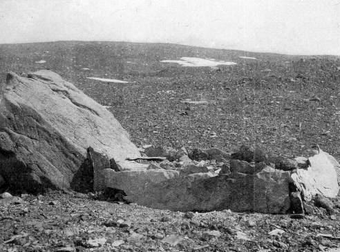 The grave of the Norwegian zoologist Nicolai Hanson (1870-1899), member of the Southern-Cross-Expedition (1898-1900), at Cape Adare (Antarctica).